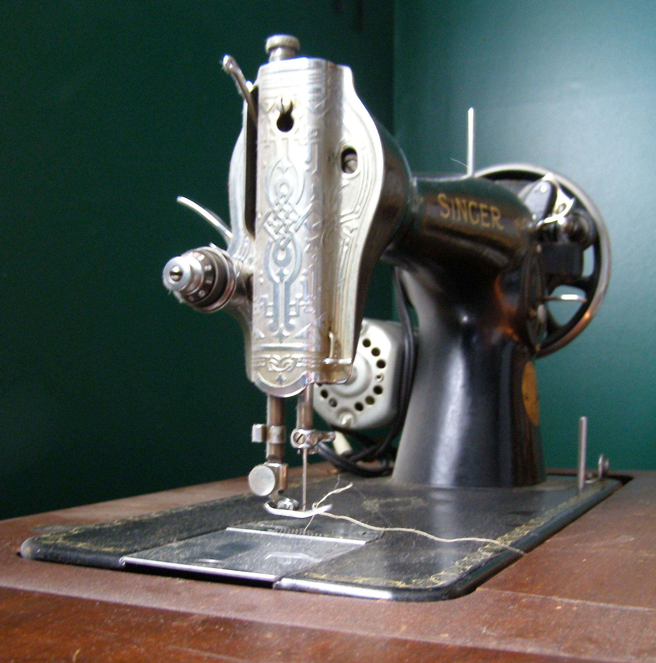 Singer Sewing Machine with Brother electric retrofit